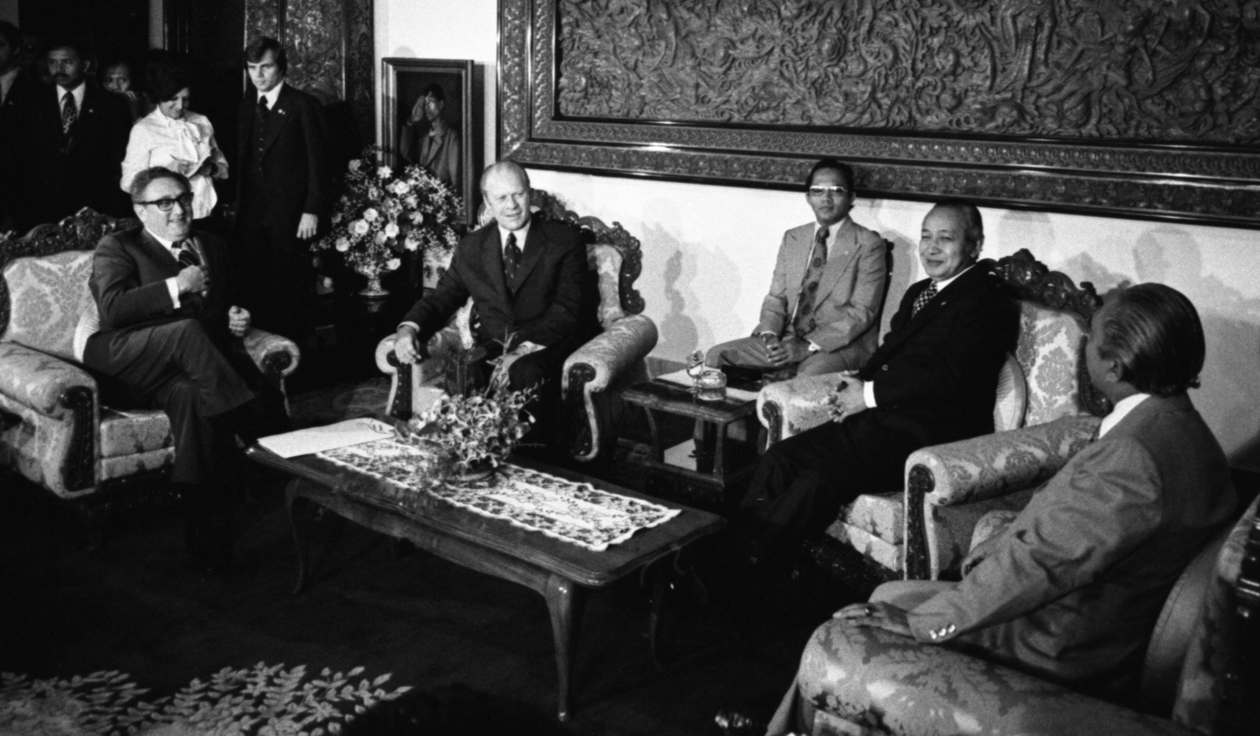 R-L: Adam Malik, Suharto, Gerald Ford, Henry Kissinger. Head to Head Meeting with President Suharto and Foreign Affairs Minister Malik of Republic of Indonesia on President's Far Eastern Trip, sitting on sofas in front of large carved teak wall sculpture telling story of the culture. 1975, December 6 – Jepara Room, Istana Merdeka (Credential Hall) – Jakarta, Indonesia. A7504-07 600dpi scan from Original Negative.